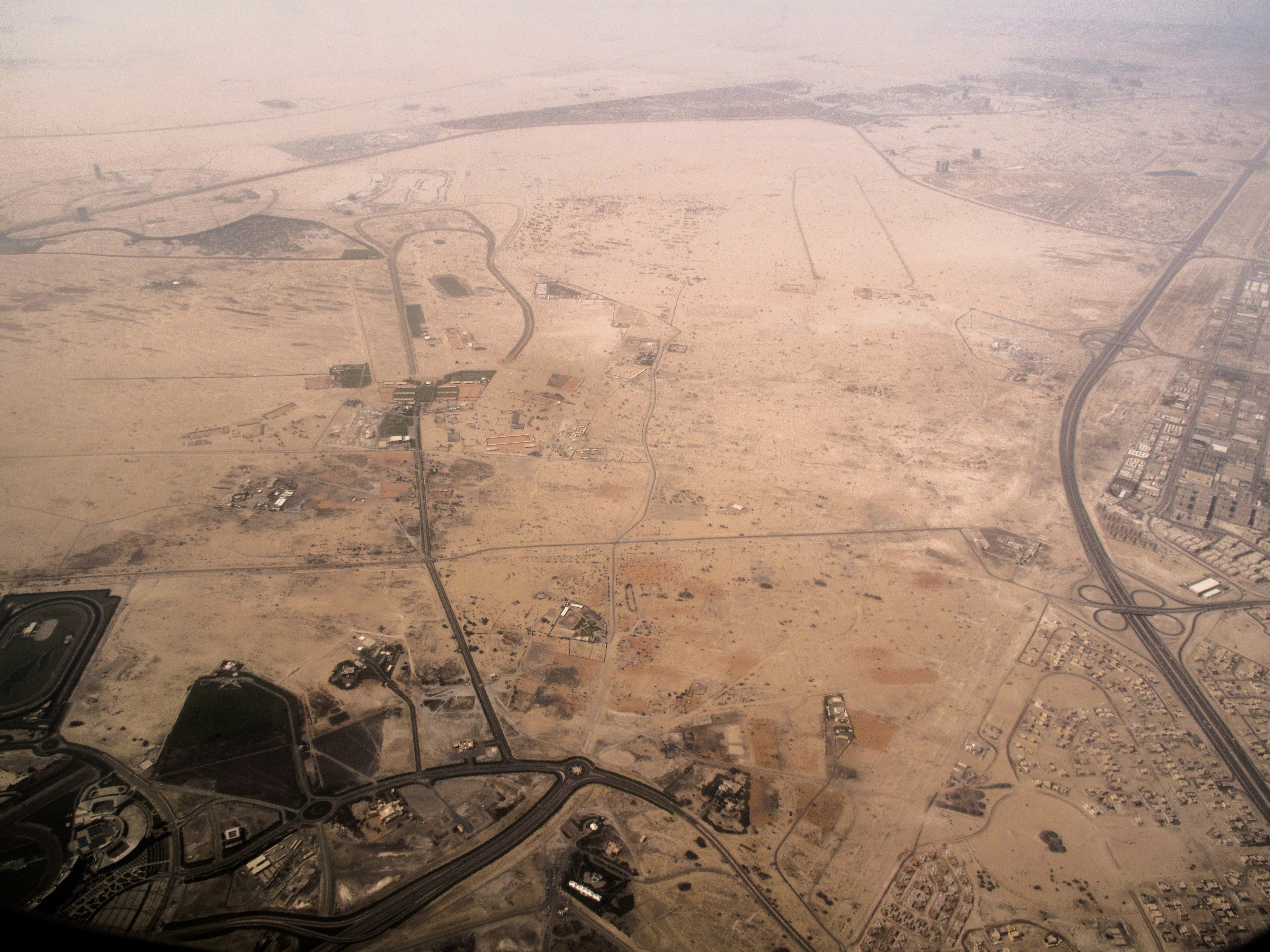 Building new suburbs in Dubai